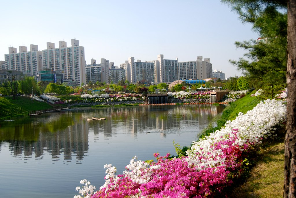 Korea-Guri City